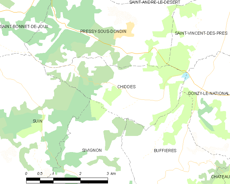 Map of French municipality